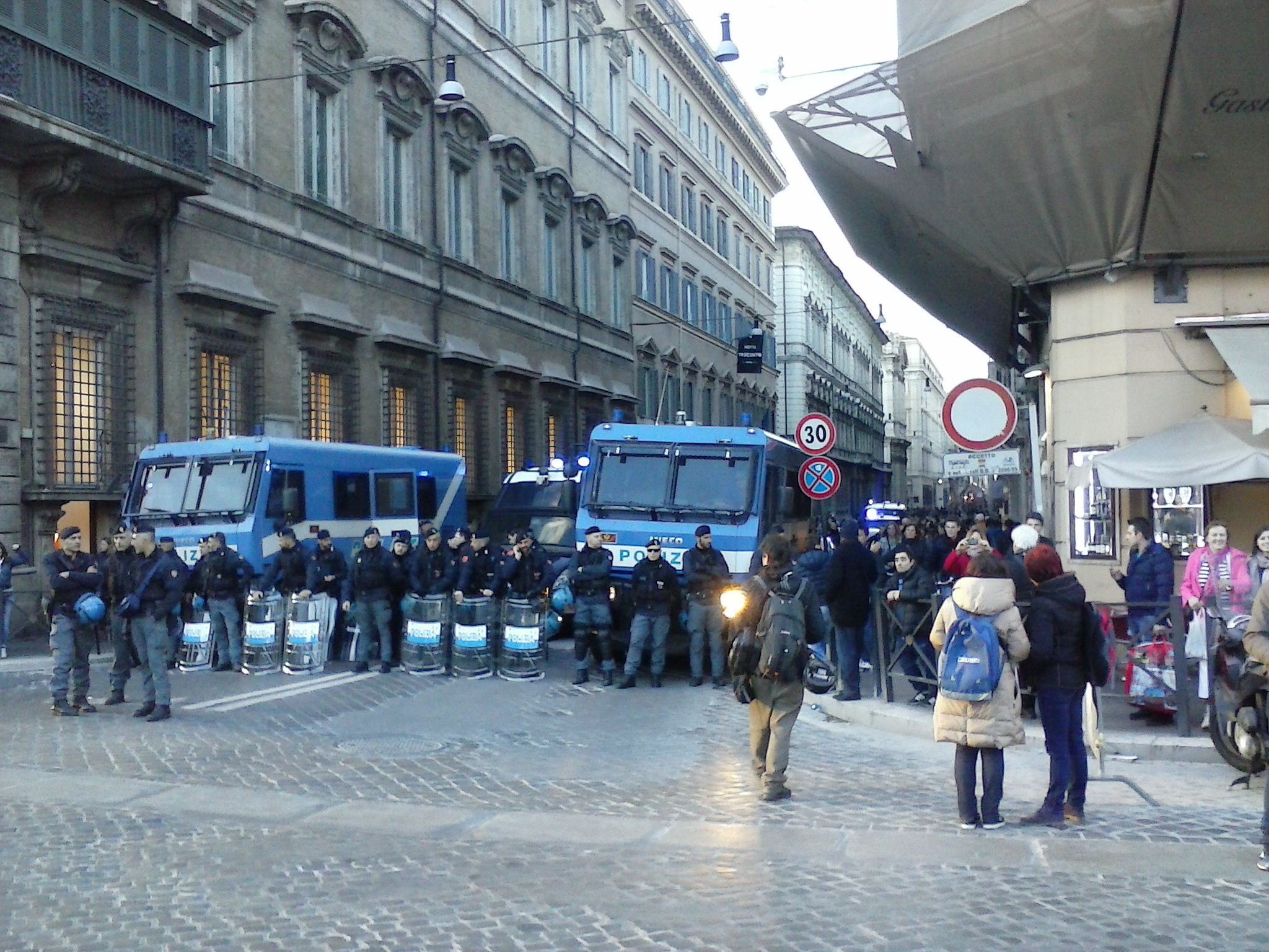 Can I use this photo? Read here for more informations.